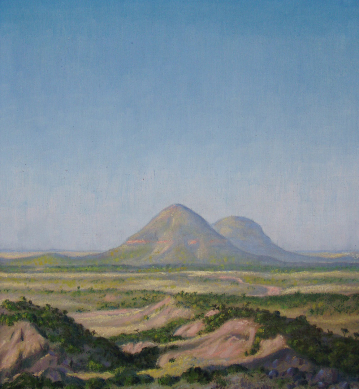 Mounts Omatako, Namibia (1947); oil painting of Helmut Lewin (1899-1963)